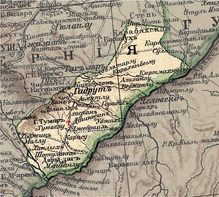 Uyezd of Jabrayil in Yelizavetpol gubernia